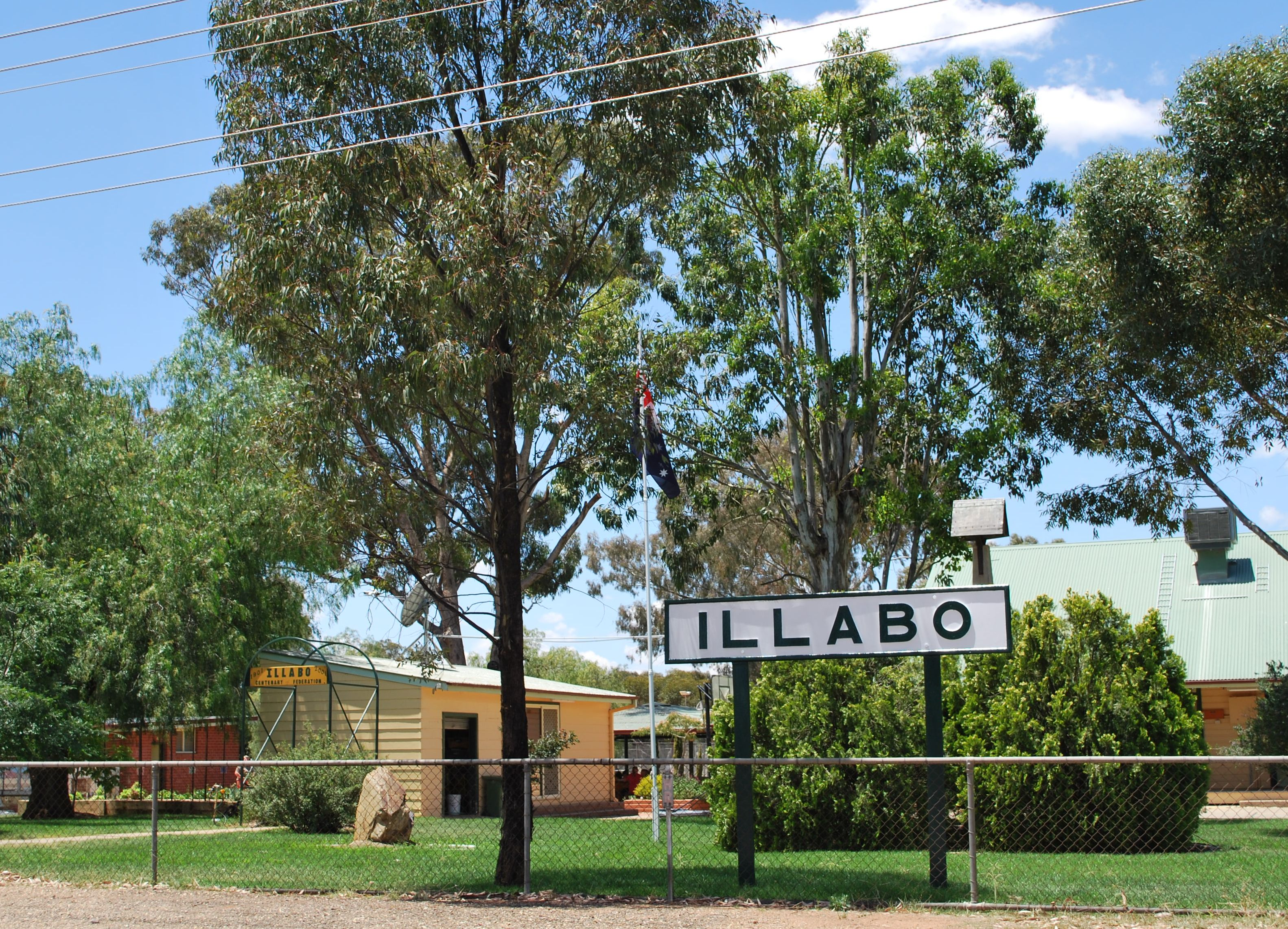 Public school at Illabo, New South Wales